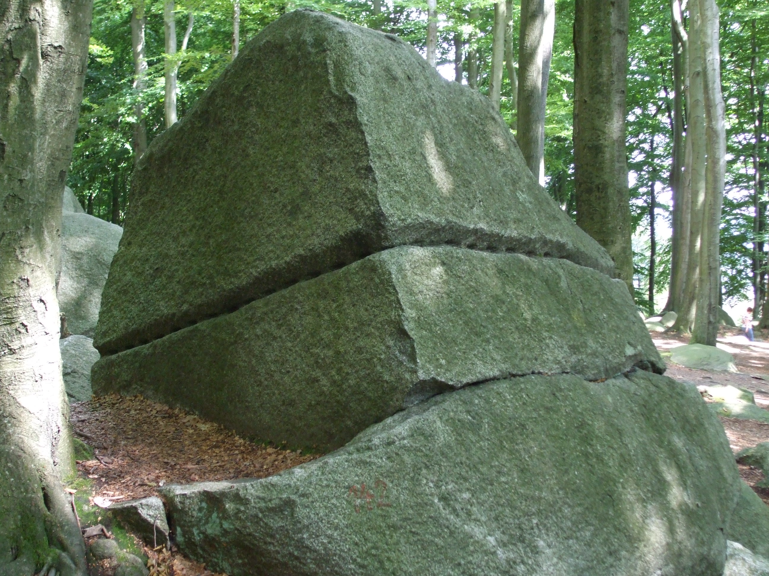 Pyramide